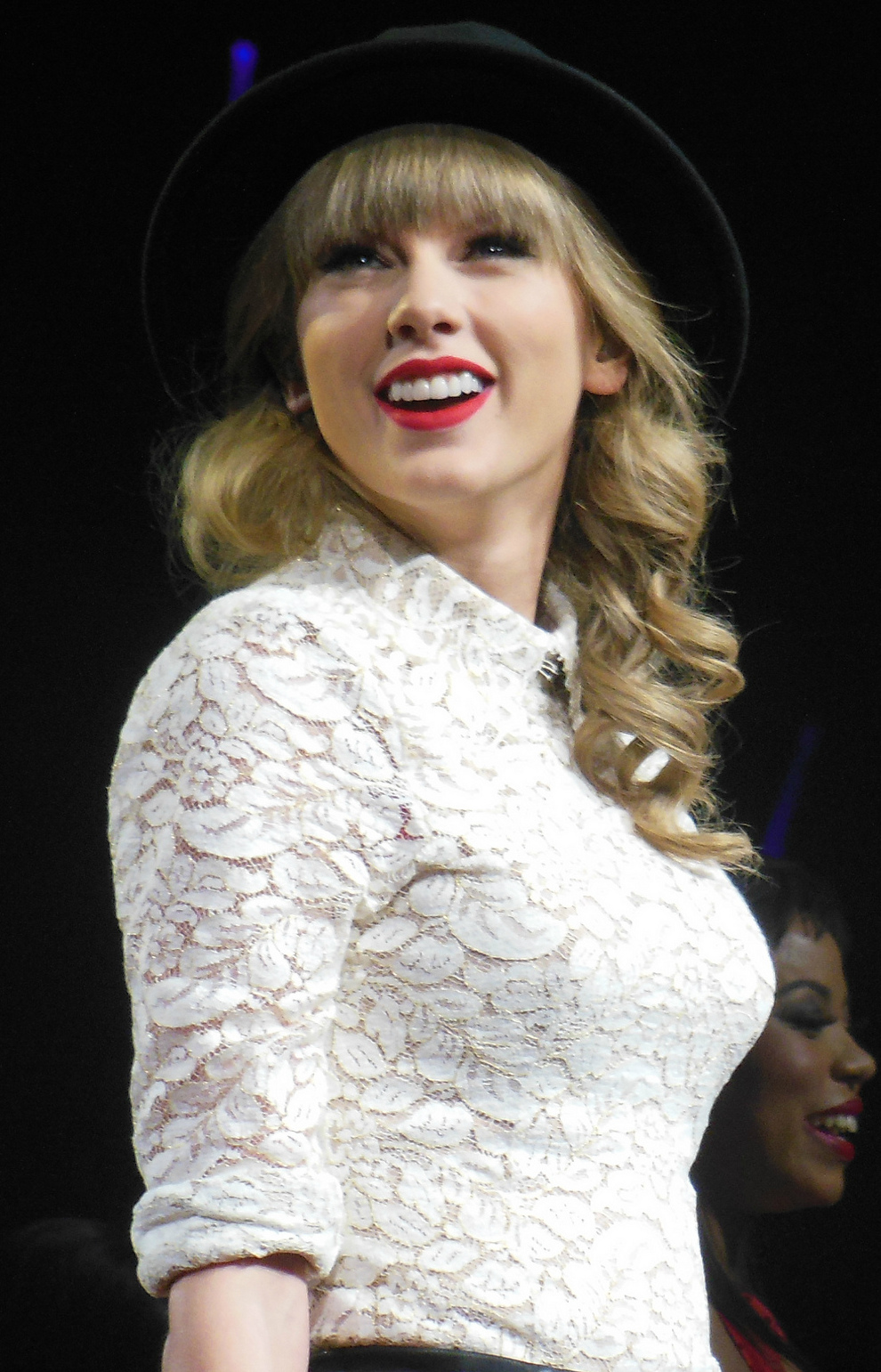 Taylor Swift performing Red Tour in St. Louis, Missouri, 25 March 2013.